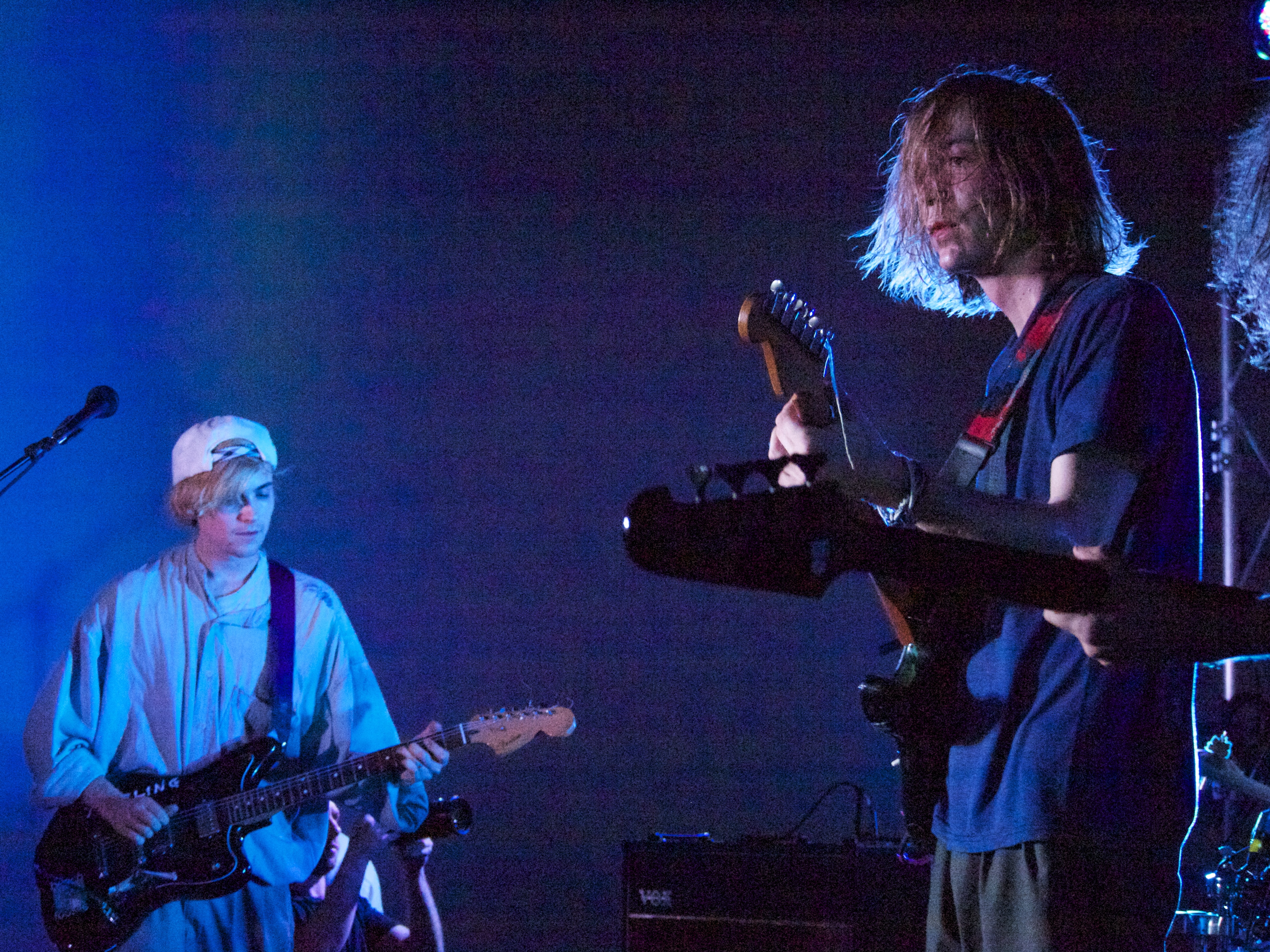 DIIV performing, October 5 2012.